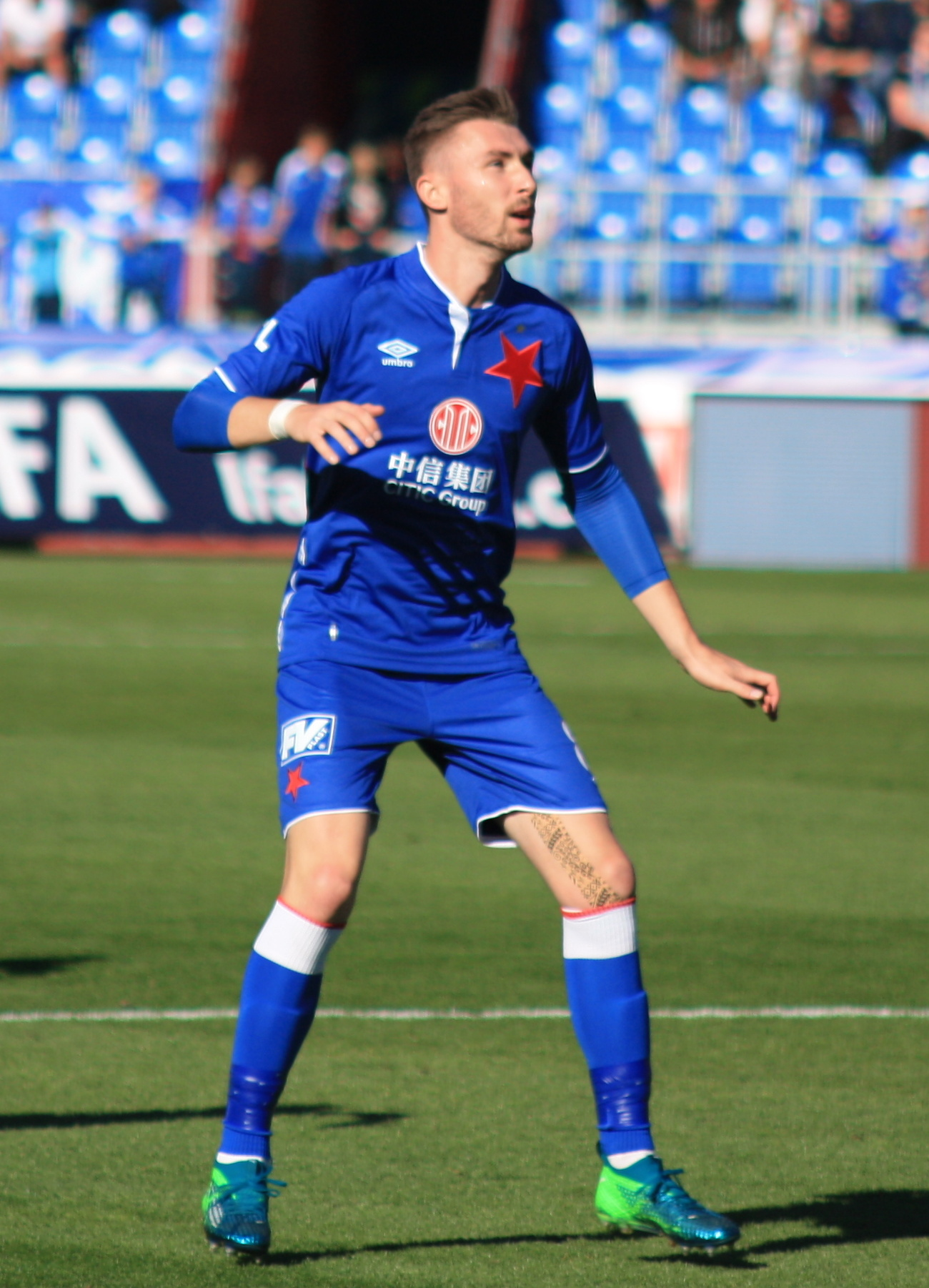 Jaromír Zmrhal At Czech First League (Fortuna Liga) match FC Baník Ostrava-SK Slavia Praha played on 30. 9. 2018